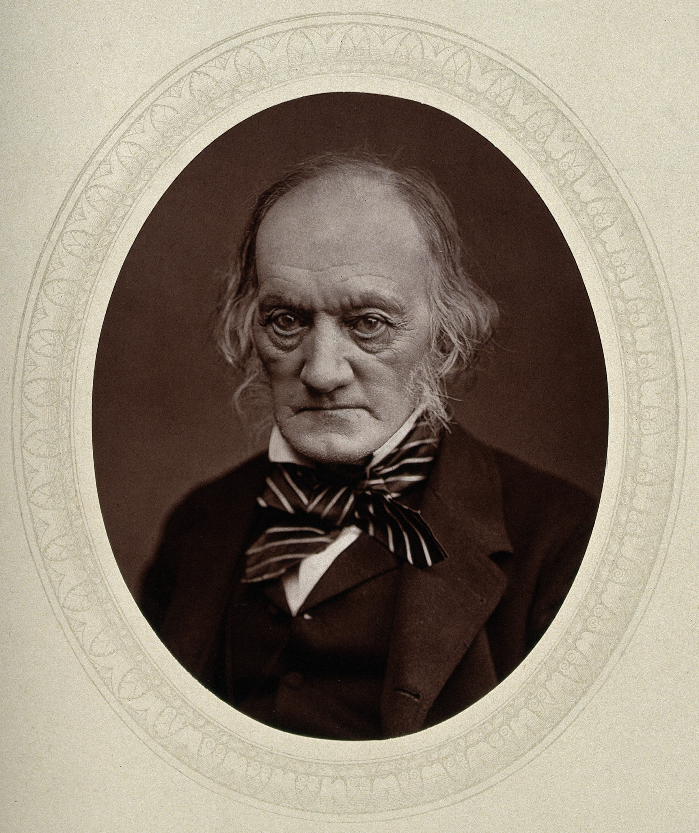 Sir Richard Owen. Photograph by Lock & Whitfield. Iconographic Collections Keywords: portrait photographs